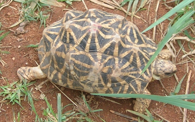 Star tortoise